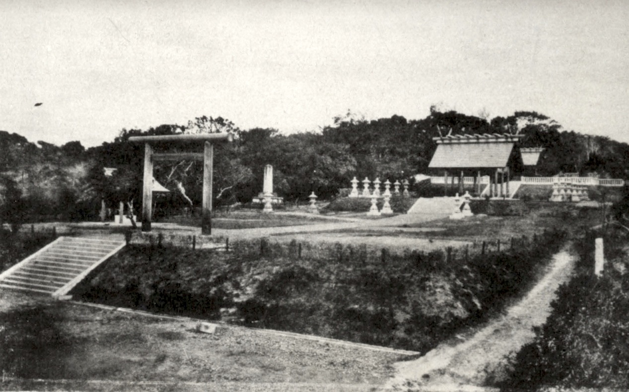 Shizangan中文（台灣）: 芝山巖。